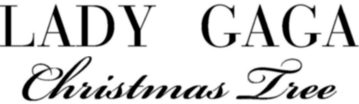 Logo of Christmas Tree.